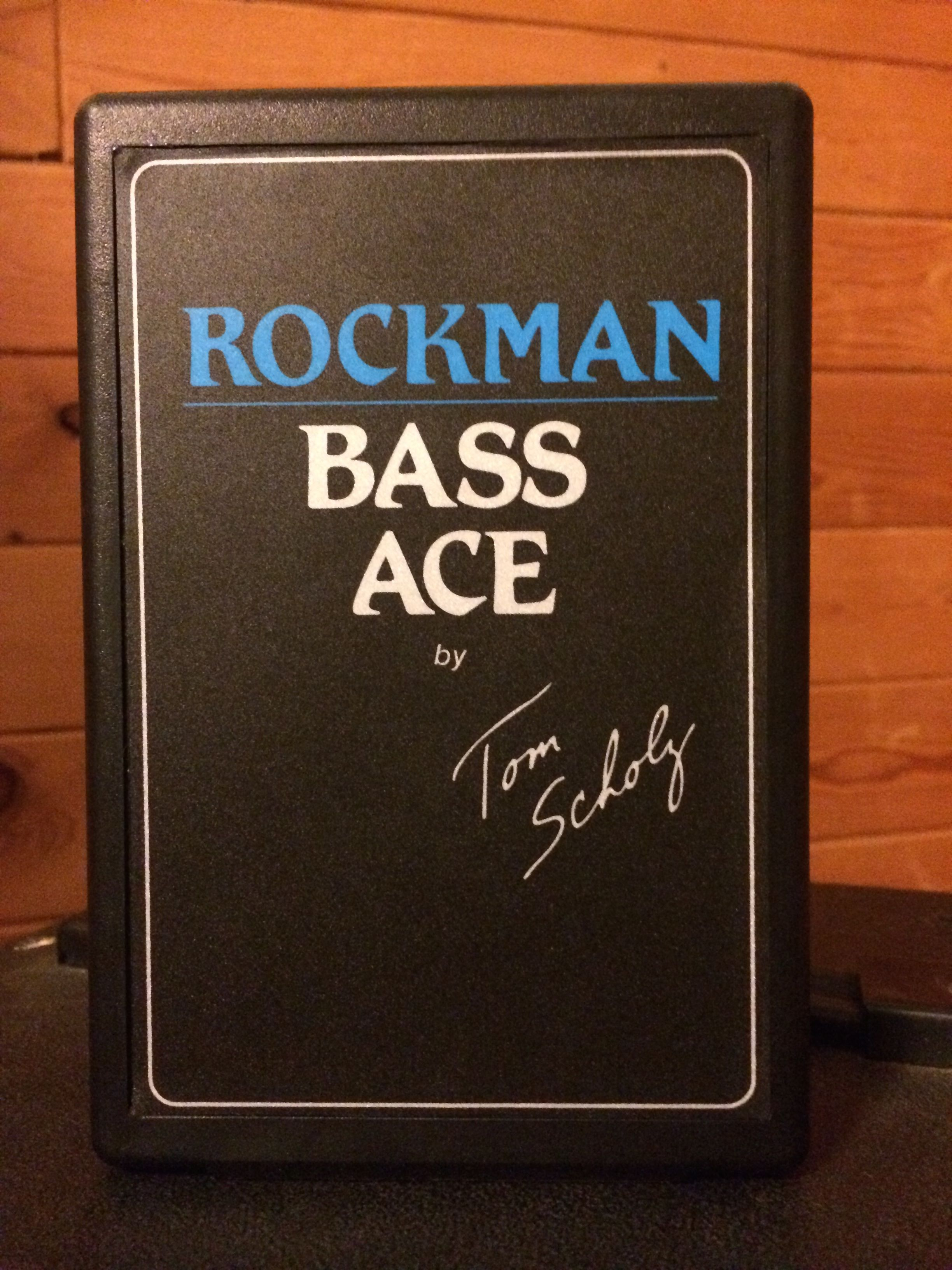 The front of a Dunlop Rockman Bass Ace.